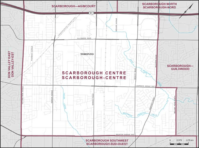 Scarborough Centre Elections Canada map 35094 (2015 boundaries)